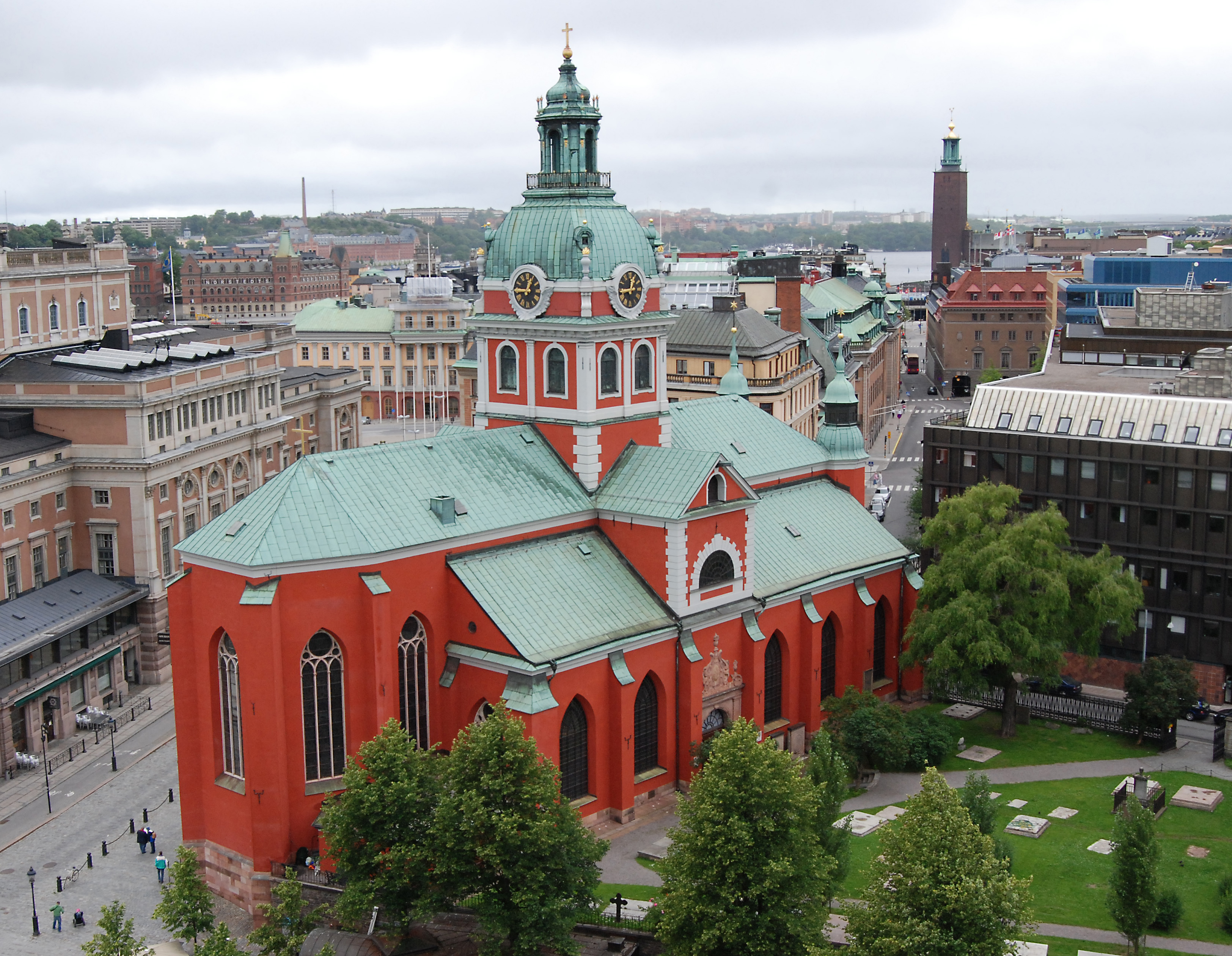 Saint James's church from a skylift in Kungsträdgården July 8, 2007